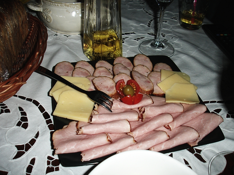 Ham (food)